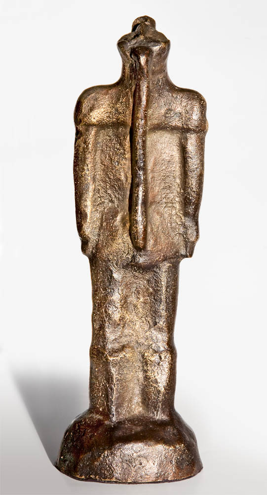 Sfinks Award the fandom prize.